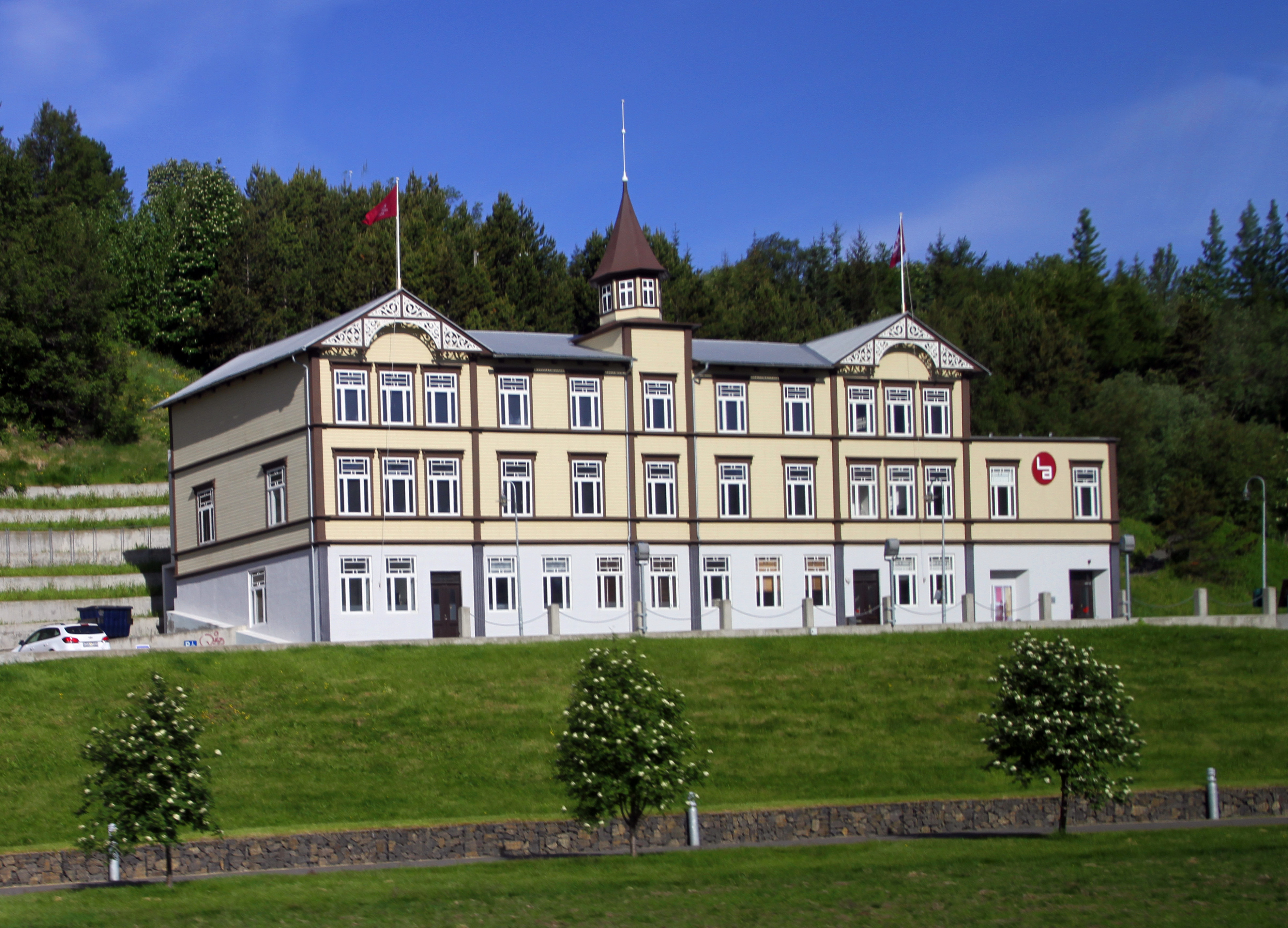 Akureyri in Iceland